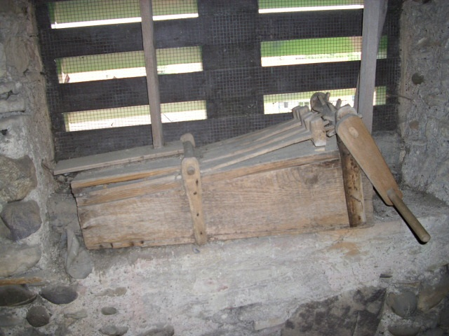 Rätsche St Leodegar Friedingen